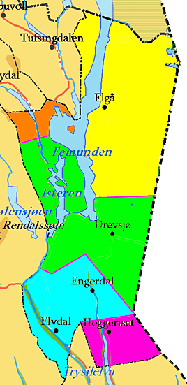 Engerdal parts at formation in 1911